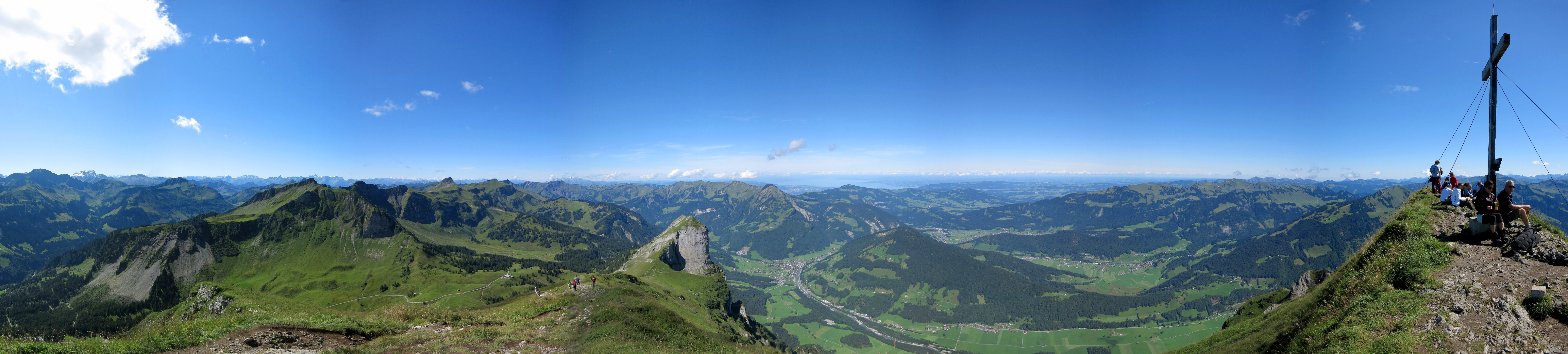 View from mountain Kanisfluh, Austria